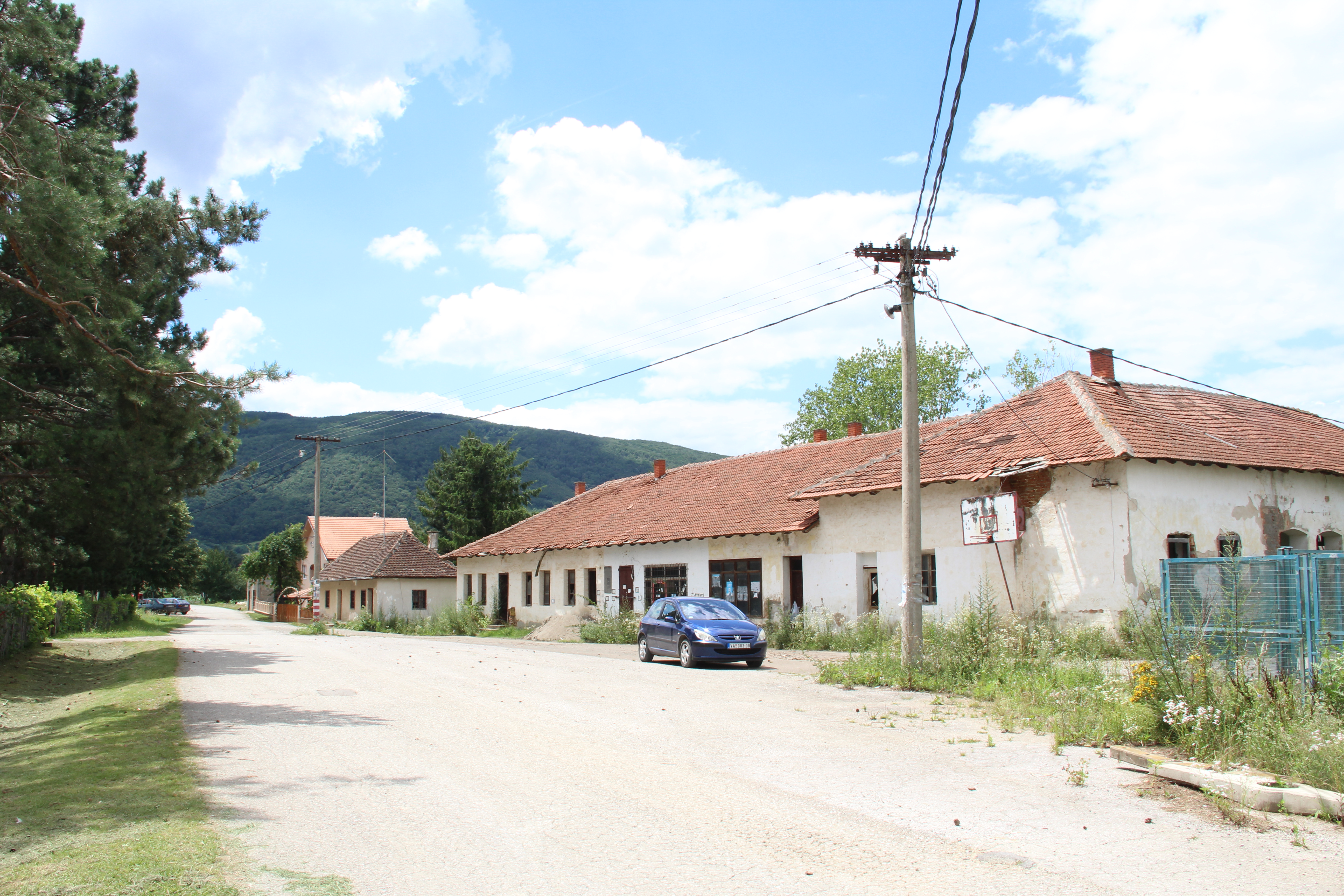 Bikovac village - Municipality of Mionica - Western Serbia - Panorama 13